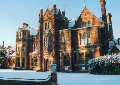 Dalewood House, Mickleham, Surrey, in snow